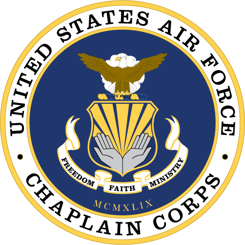 This is the official seal of the 2008 USAF Chaplain Corps